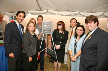 Resident Commissioner Luis Fortuño participates in the official designation of the post office located in McKinley Street, Mayagüez in honor of Puerto Rican Miguel Angel García Méndez.